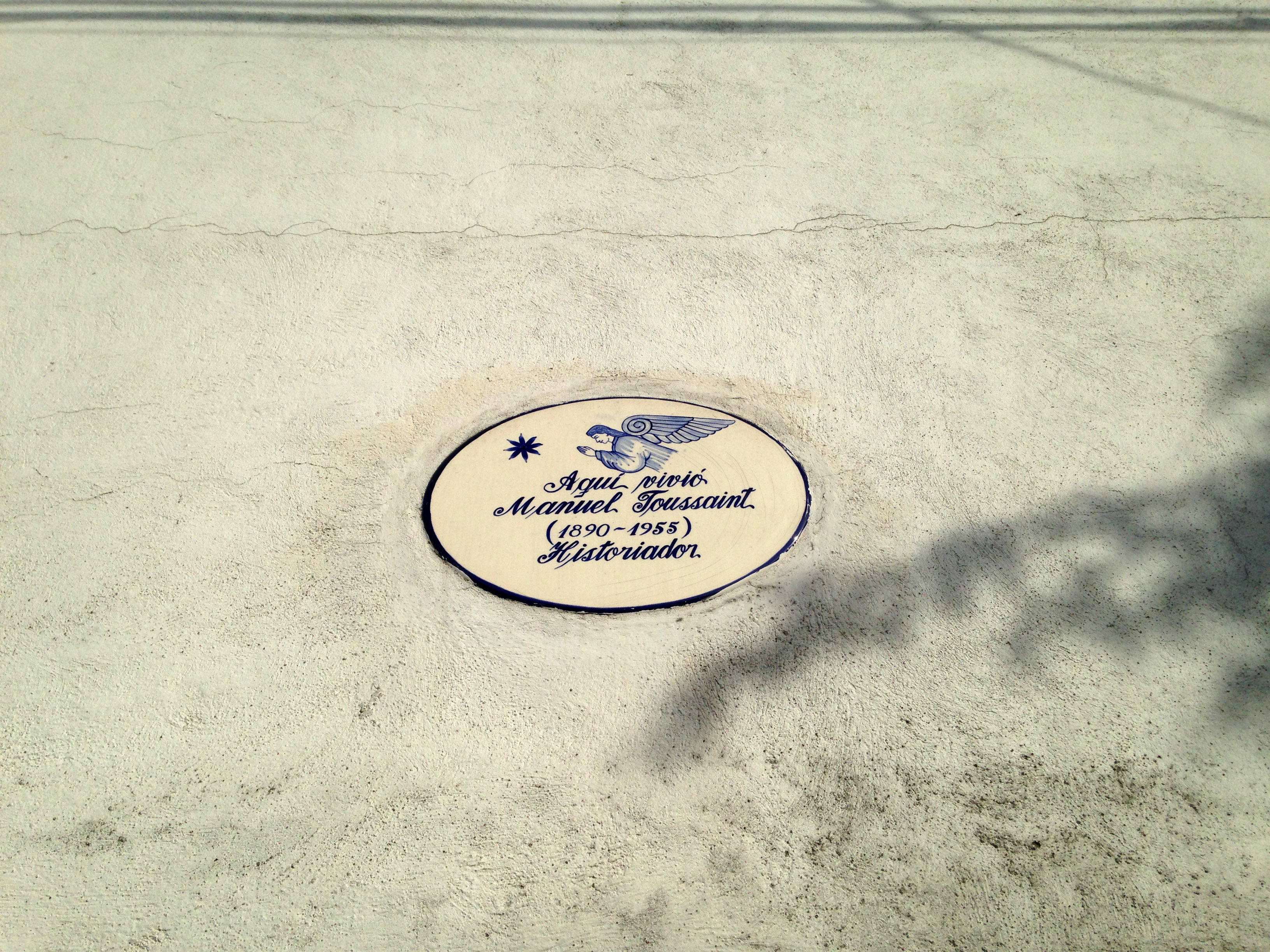 Plaque at the house were born Mexican Historian Manuel Toussaint. Barrio Cuadrante San Francisco, Coyoacán, Mexico City